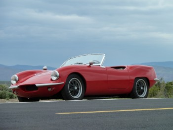 Elva Courier On the road